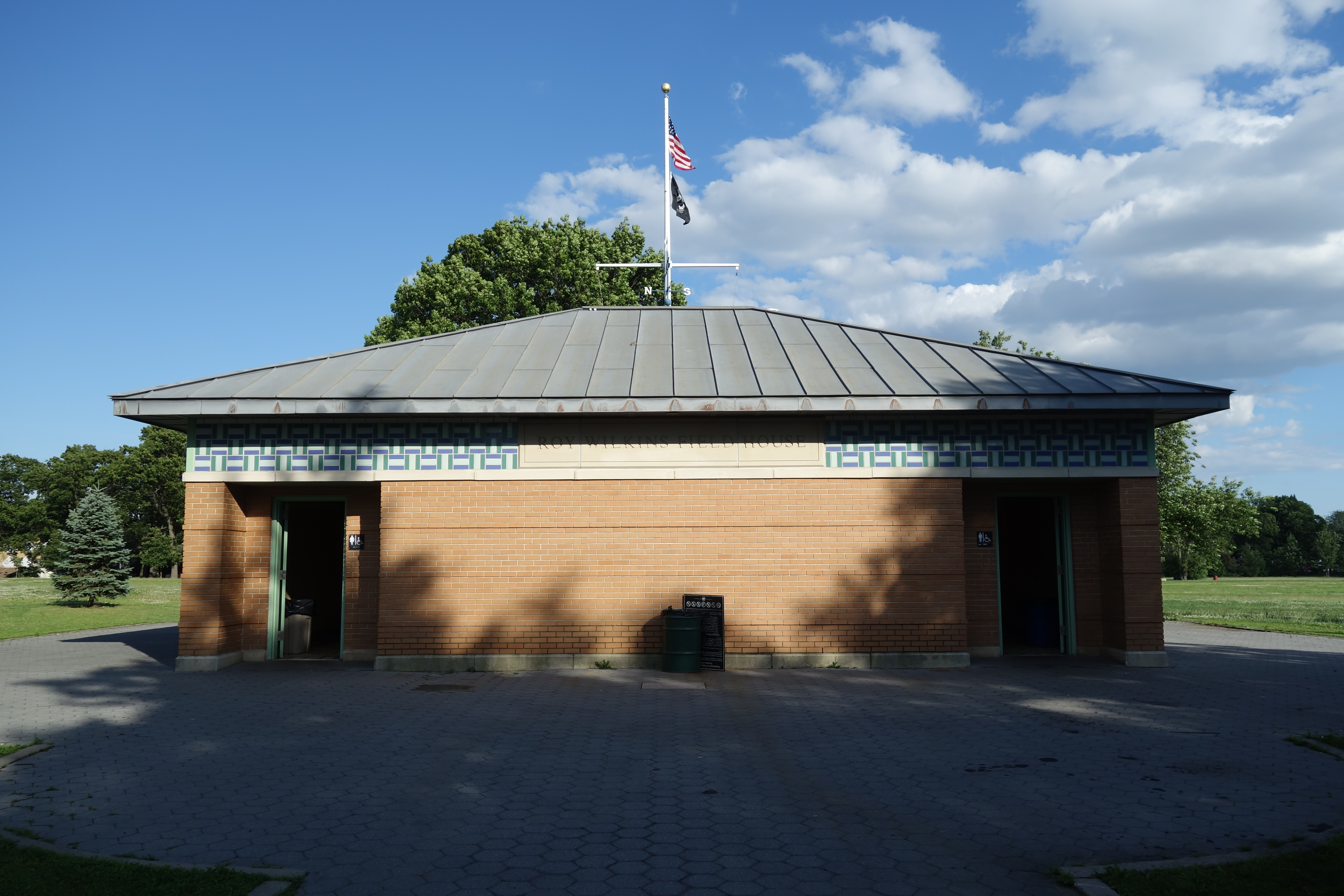 The large comfort station, signed as the "Roy Wilkins Field House", in the center of Roy Wilkins Park (Roy Wilkins Recreation Center), at Merrick Boulevard and Foch Boulevard in St. Albans, Queens. A very similar structure is located near the Playground for All Children in Flushing Meadows–Corona Park.